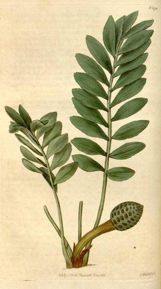 Illustration of Zamia pygmaea